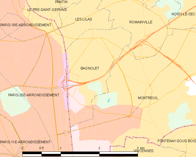 Map of French municipality Bagnolet